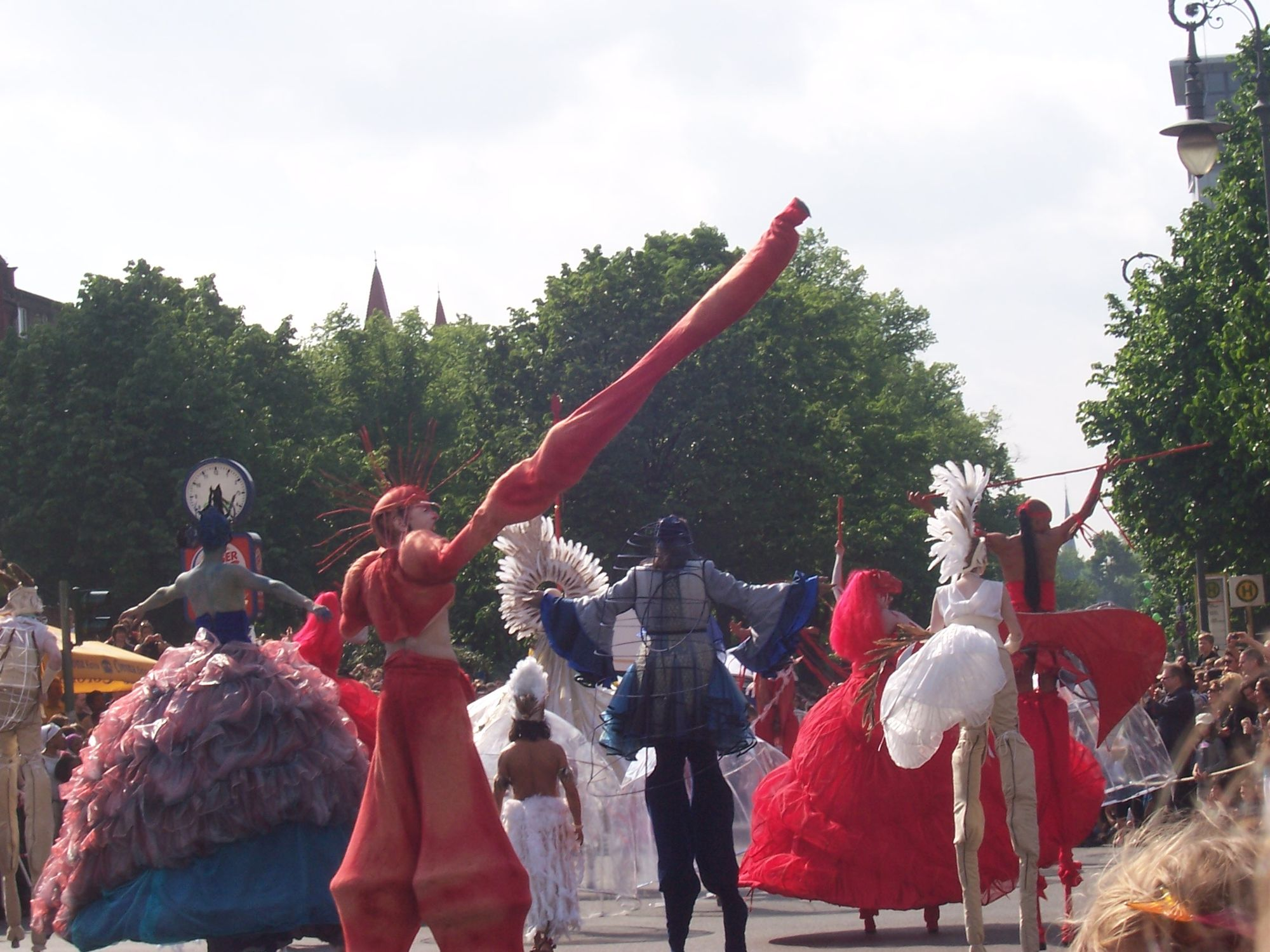 a stilting group at the Carnival of Cultures parade in Berlin, Germany